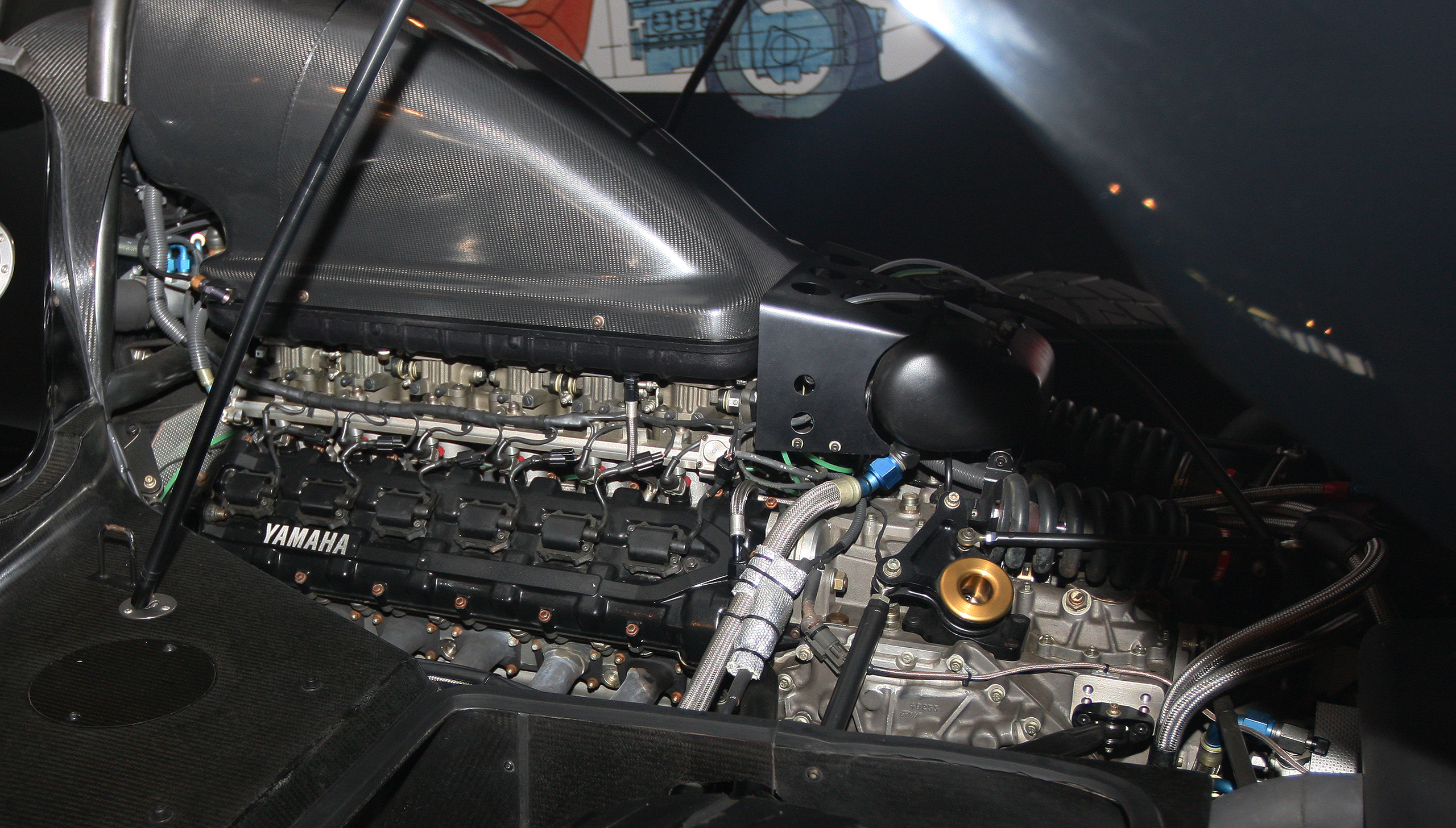 Yamaha OX99 engine in the OX99-11.